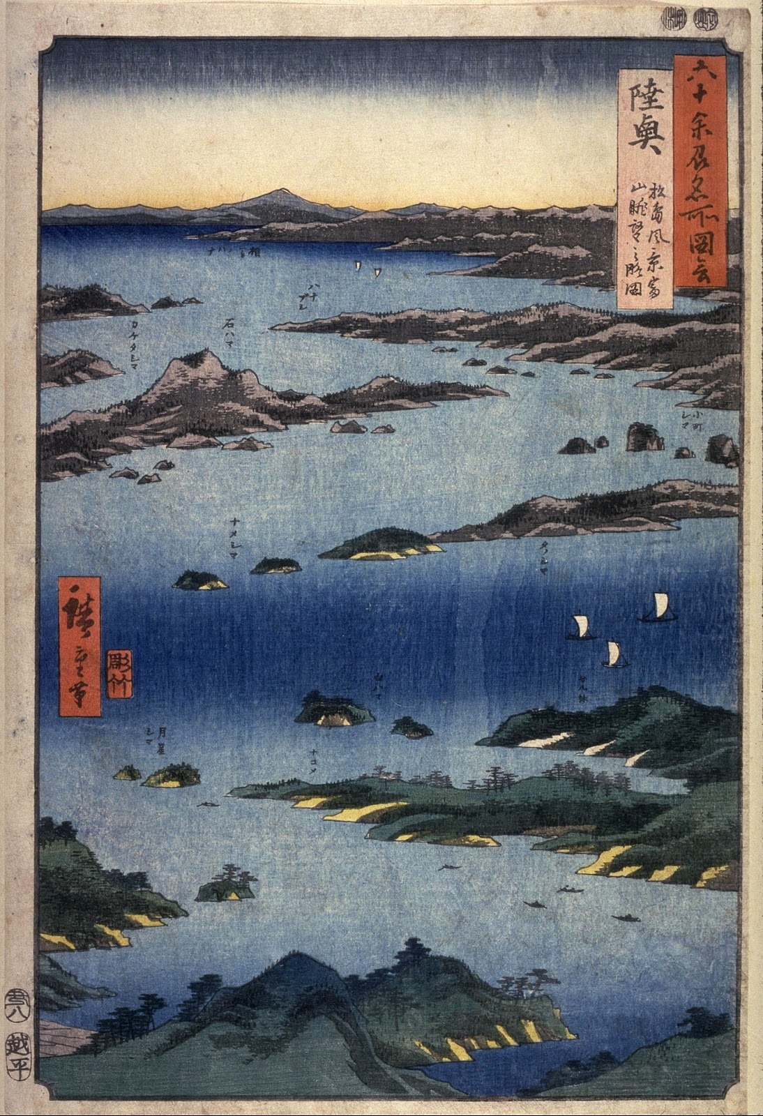 Mutsu Matsushima Fūkei Tomiyama Chōbō no Ryakuzu of the Famous Scenes of the Sixty States.